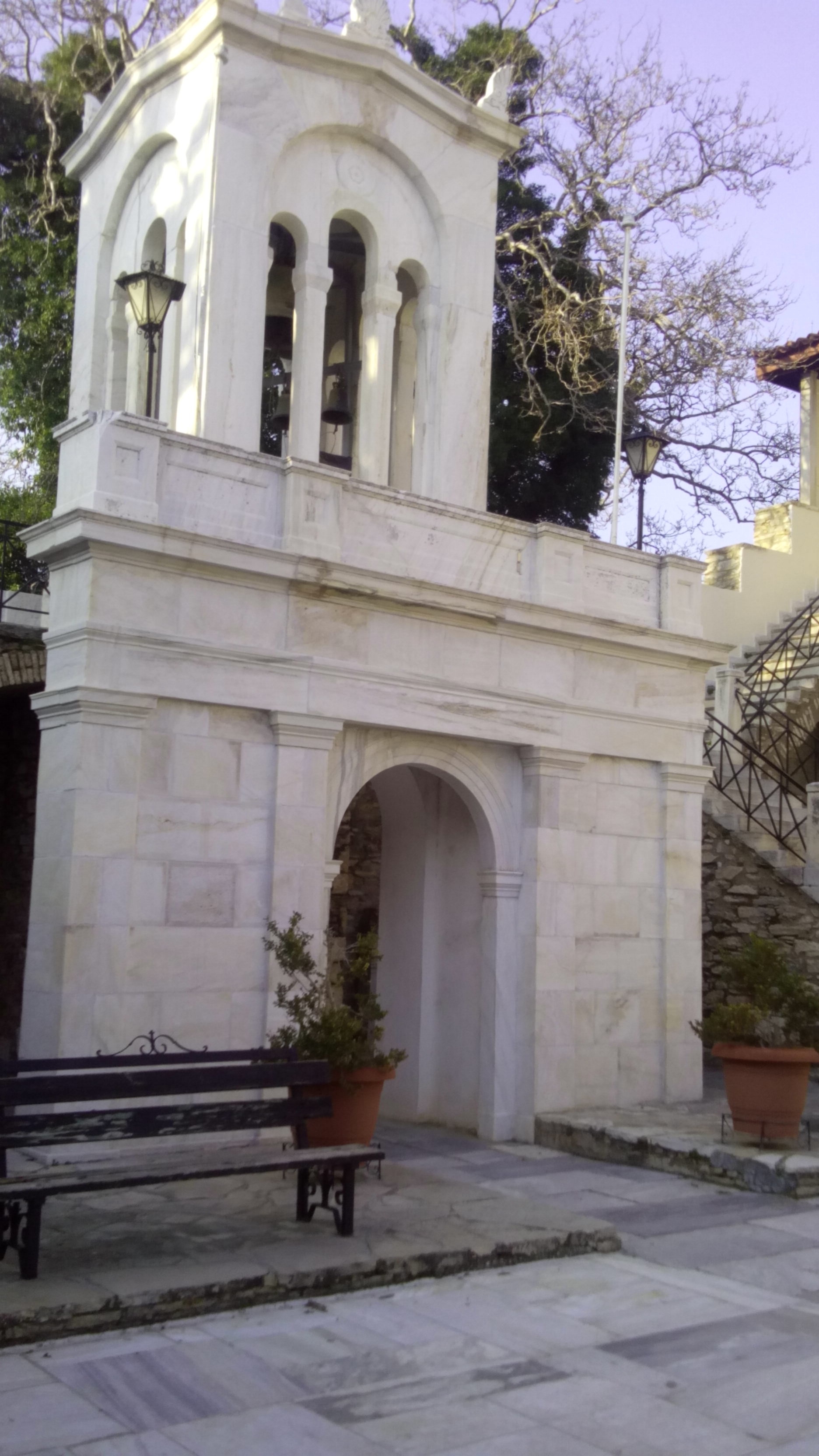 Holy Monastery of Penteli (Dormition of Mother of God)